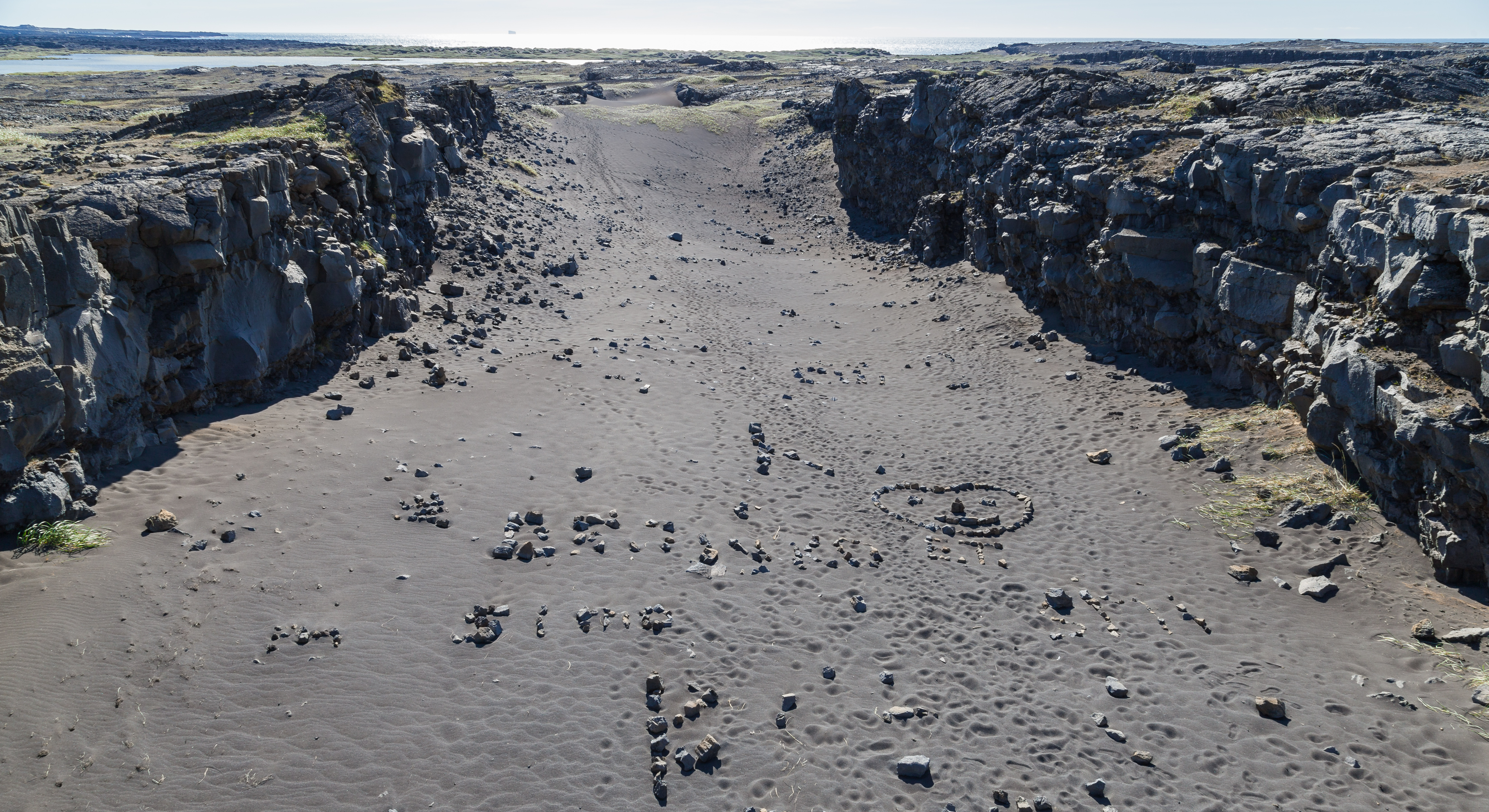 Tectonic plates of Eurasia and North America, Suðurnes, Iceland